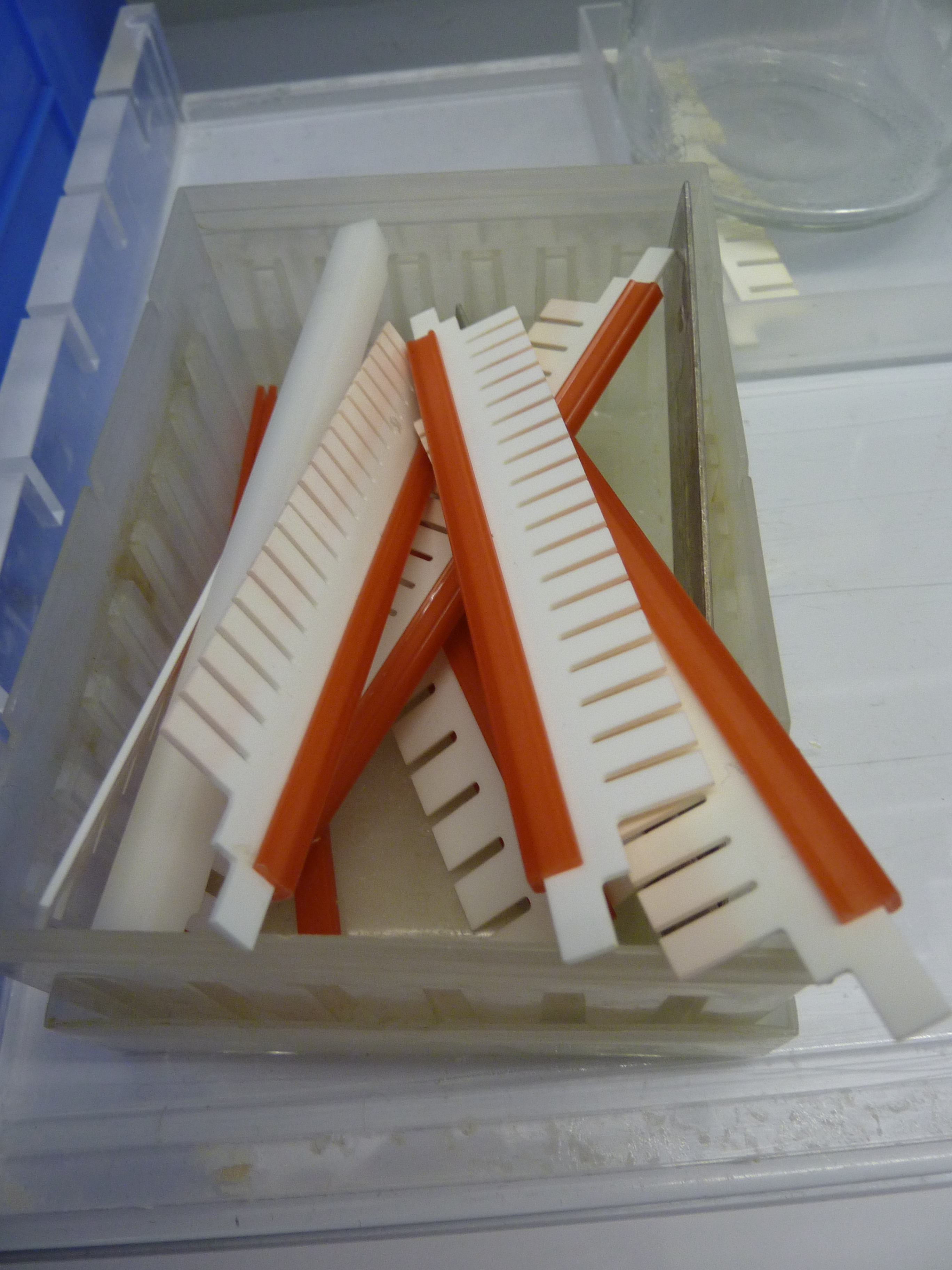 Gel combs